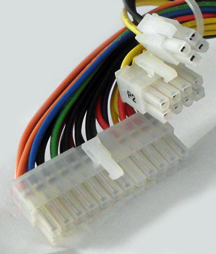 ATX / EPS / SSI power connectors: 24pin Main power, 8pin CPU, 4 Pin CPU - PSU Side (Server / Workstation / Cluster)